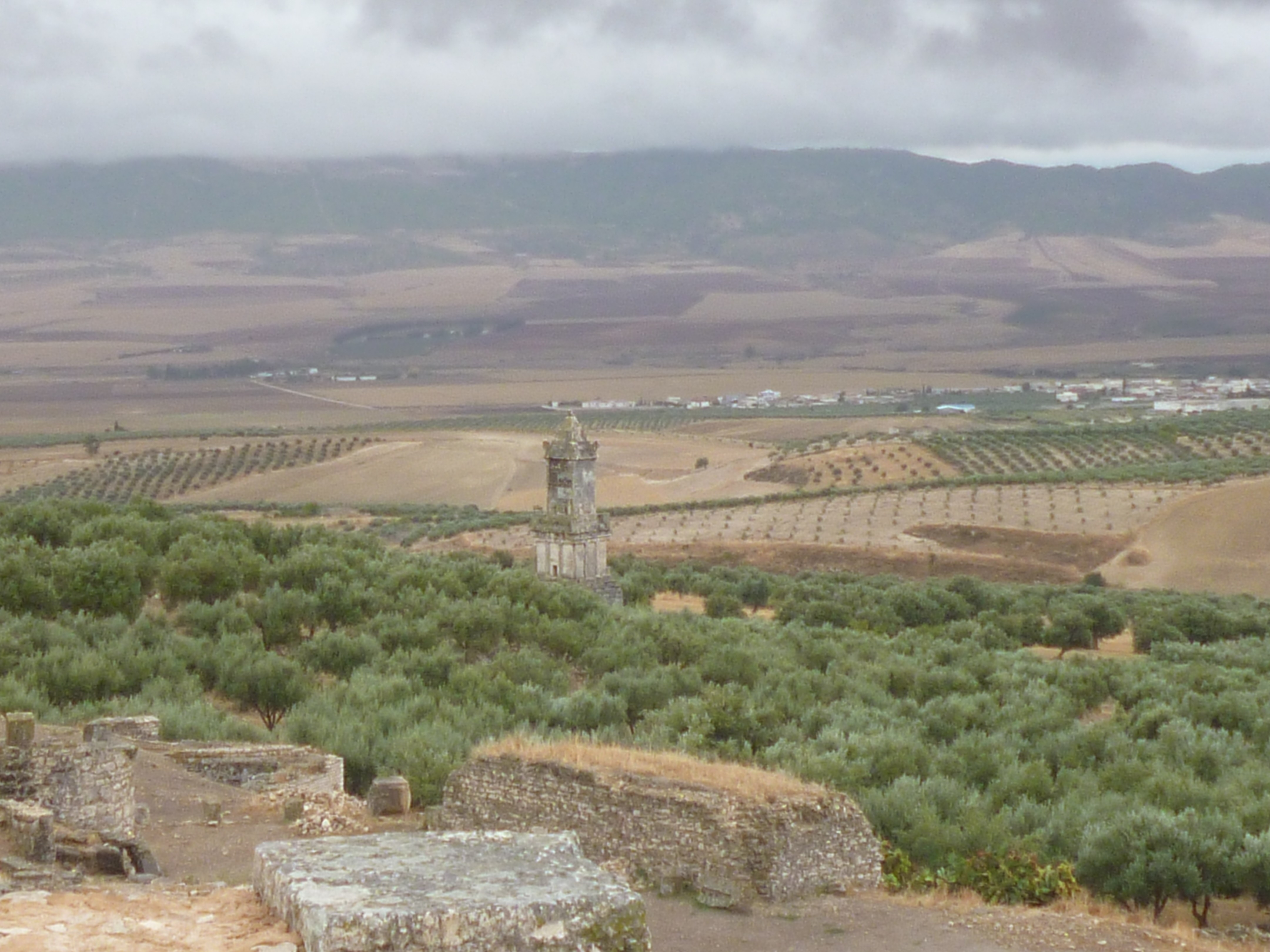 Dougga Thugga (Tunisia)